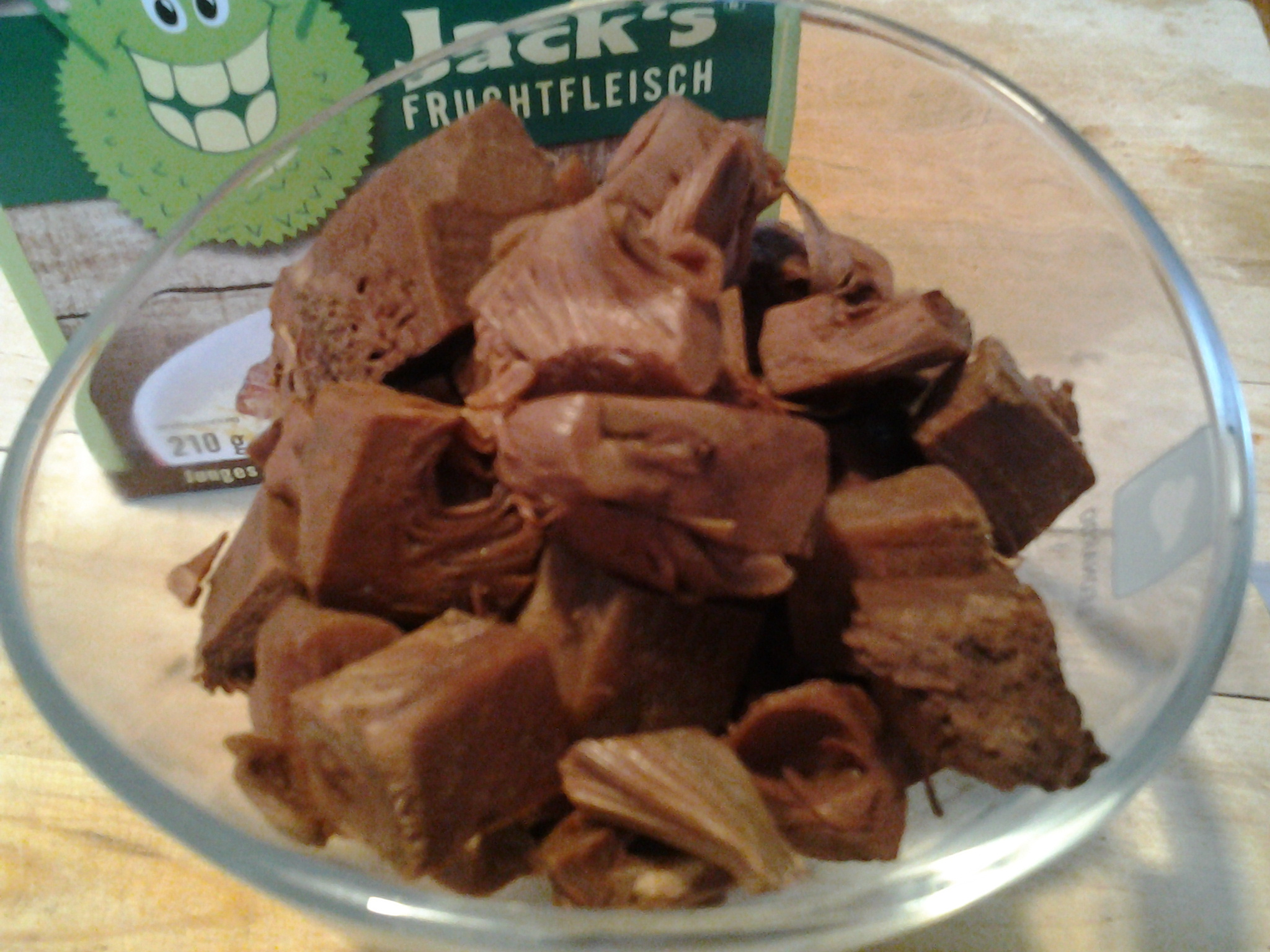 jackfruit has the look and texture of meat